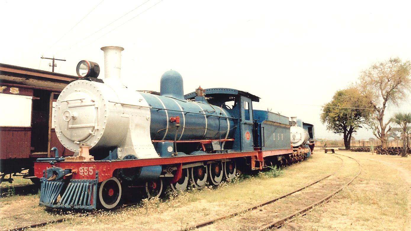 Ex Cape Government Railways Class 7 322 (4-8-0)Ex South African Railways Class 7 955 (4-8-0)Zambezi Sawmills Railway Class 7 955 (4-8-0Builder's Number: Neilson 4447Location: Livingstone, Zambia